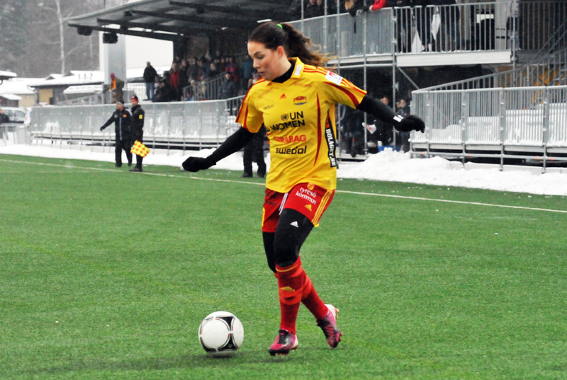 Jennifer Egelryd playing for Tyreso against Hammarby in February 2013